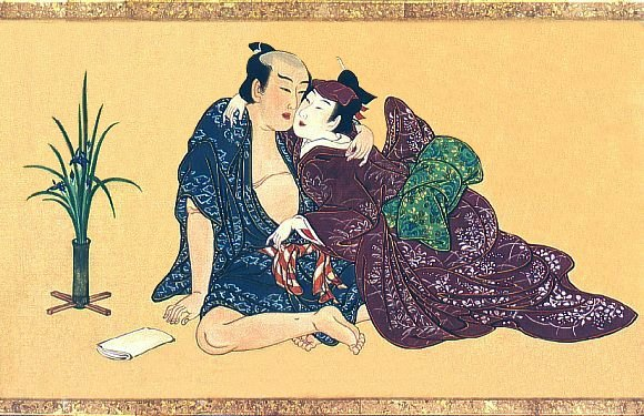 Panel from a painted hand scroll - homoerotic shunga Ausschnitt aus einer bemalten Handrolle (Kakemono-e). Shunga mit homoerotischem Motiv